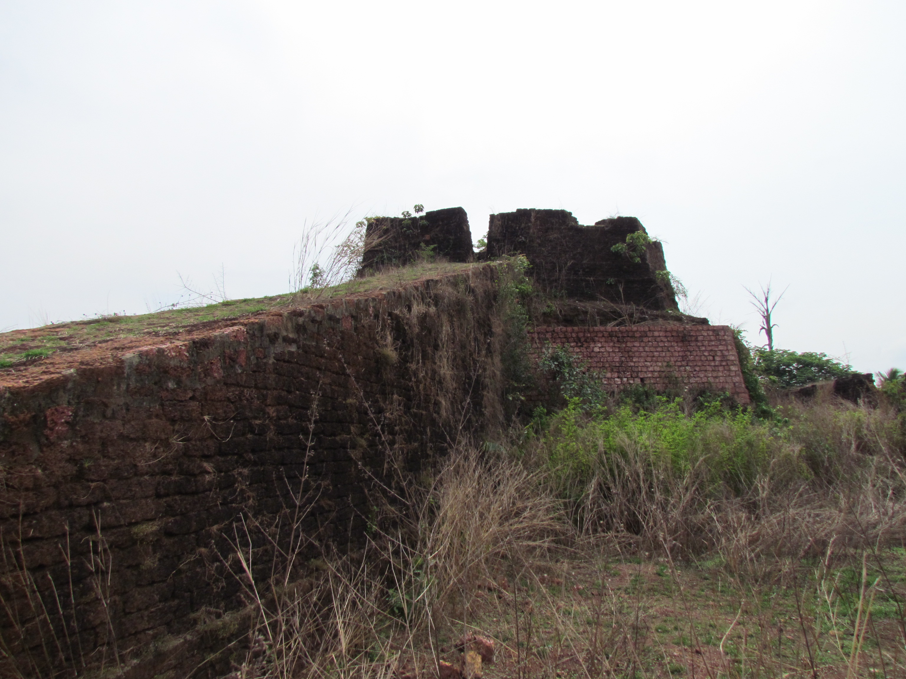 A fort in ruins